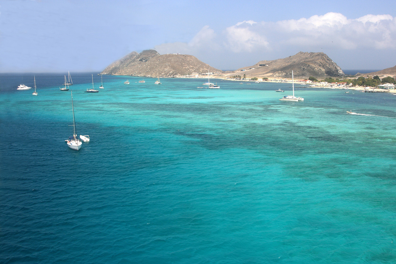 Gran Roque from plane